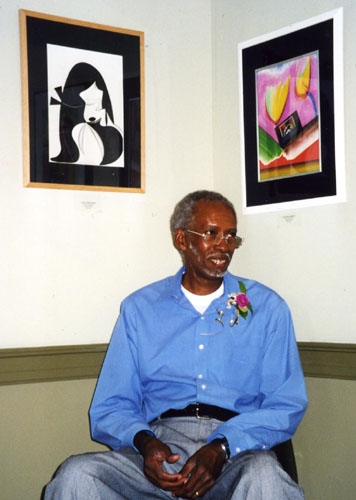 E.J.Martin.2000.jpg, photo of Eugene J. Martin and two of his works of art, taken at the Opelousas Museum of Art, LA.